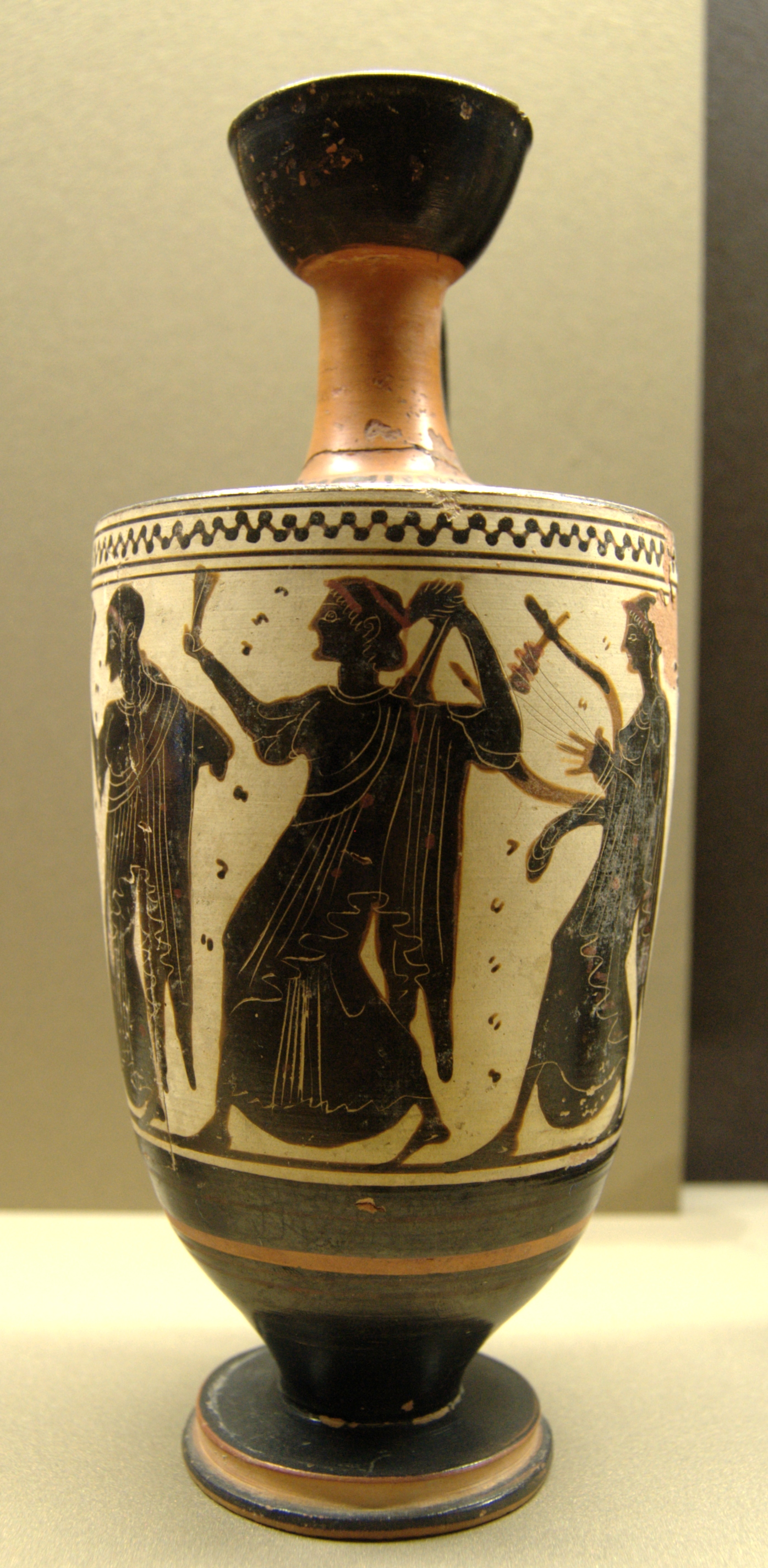 Achilles watching out for Polyxena near the fountain (left). Attic white-ground lekythos.